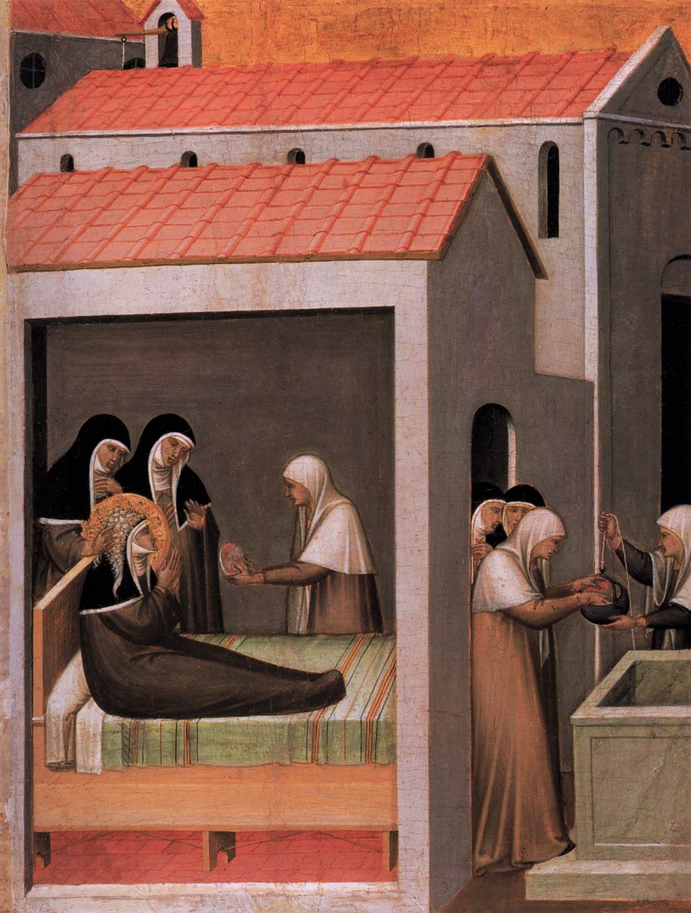 LORENZETTI, Pietro The Miracle of the Ice Panel, 42 x 32 cm Staatliche Museen, Berlin